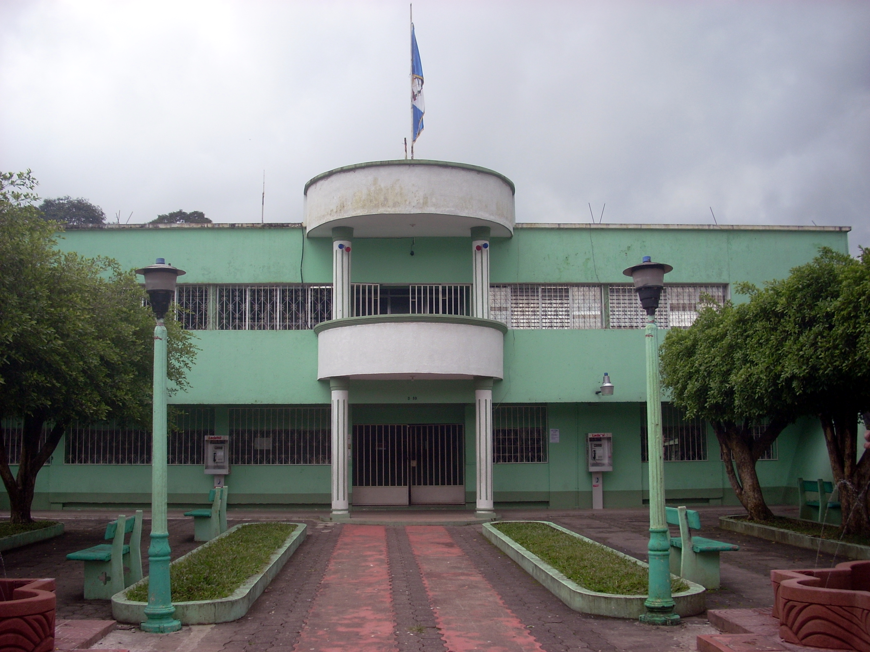 Municipal offices by the central park, San Rafael Pie de la Cuesta, San Marcos, Guatemala.